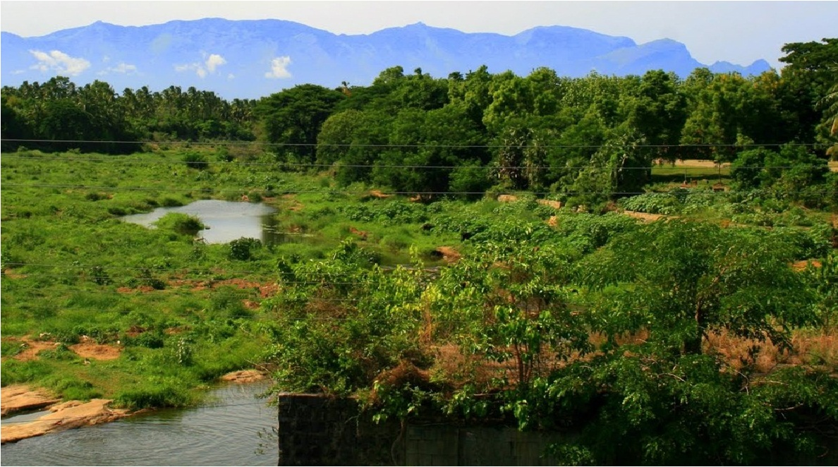 Shokanashini River aka Chittoor River